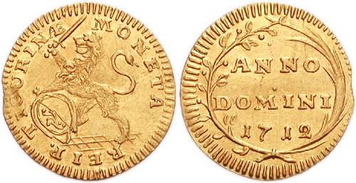 Switzerland, Zurich. AV Quarter Ducat (15mm, 0.89 g, 12h). Dated 1712. MONETA REIP TIGURINÆ, rampant lion with coat-of-arms ANNO DOMINI 1712 in plain wreath. Friedberg 488; KM 129. Coins of Switzerland